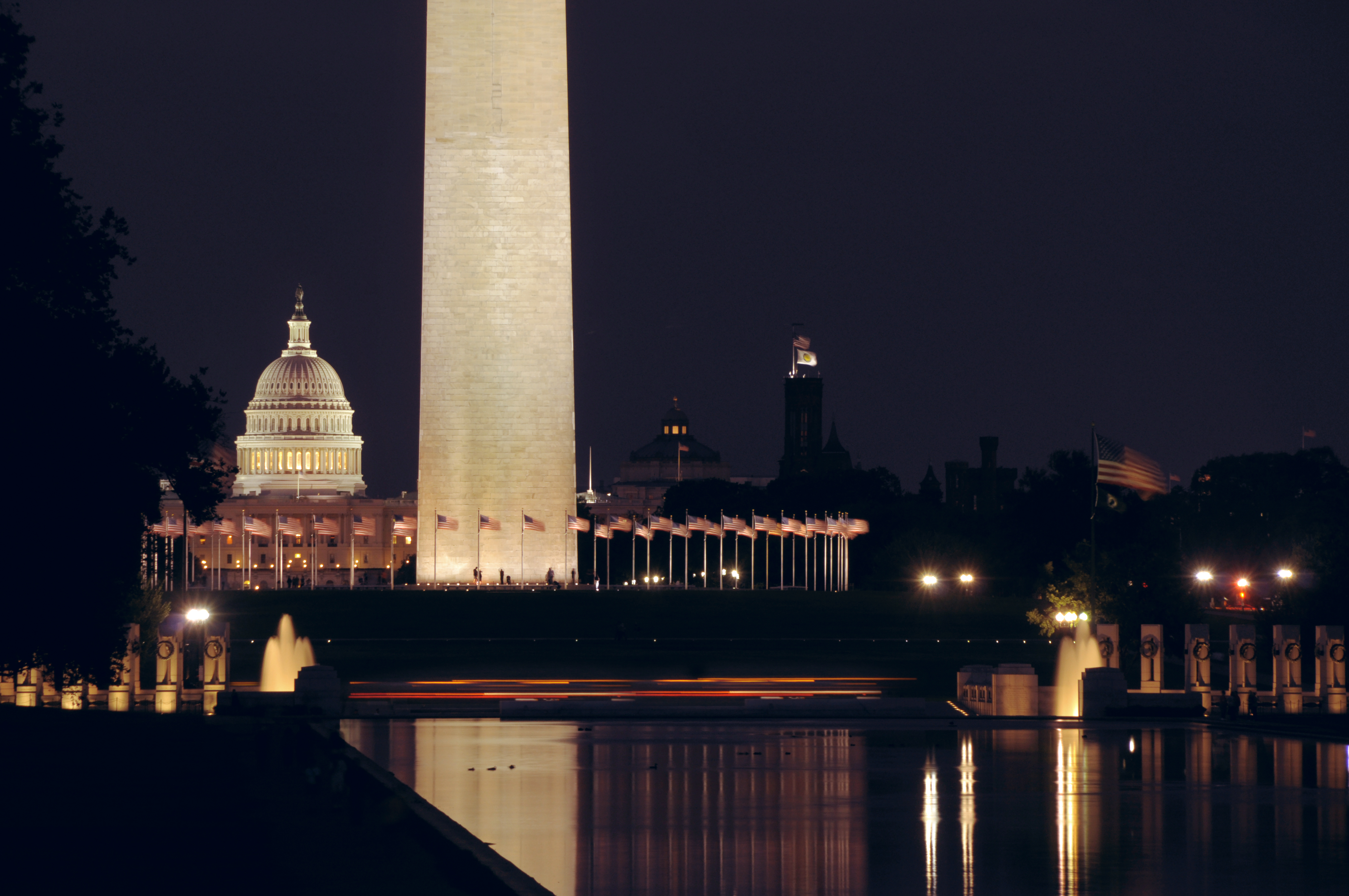 An image of Washington Monument and the U.S. Capitol.